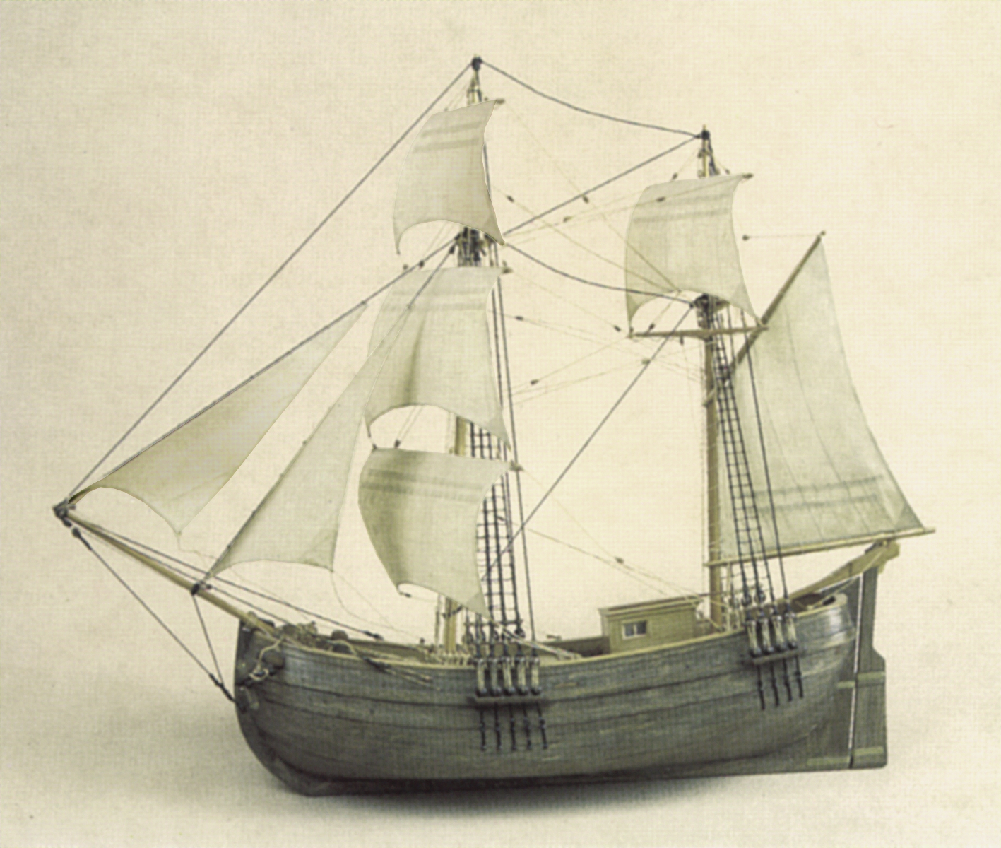 Gukor — fisherman's ship (Russian North, XVIII c.). Model